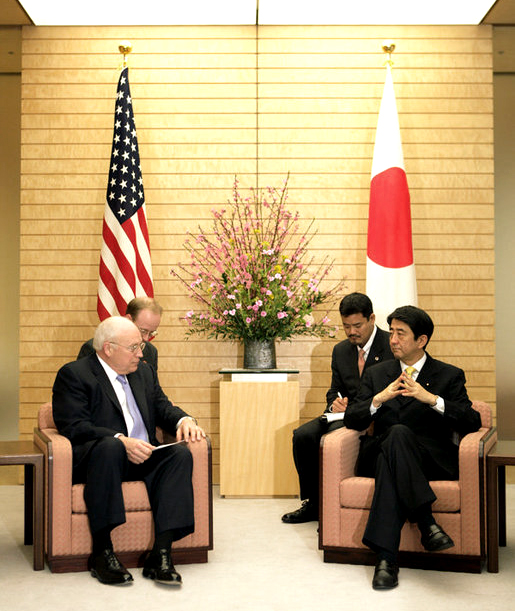 US Vice President Dick Cheney meets with Prime Minister Shinzō Abe of Japan, Wednesday, Feb. 21, 2007, at the Kantei, the official residence of the Prime Minister, in Tokyo. US Vice President Dick Cheney meets with Prime Minister Shinzō Abe of Japan, Wednesday, Feb. 21, 2007, at the Kantei, the official residence of the Prime Minister, in Tokyo.